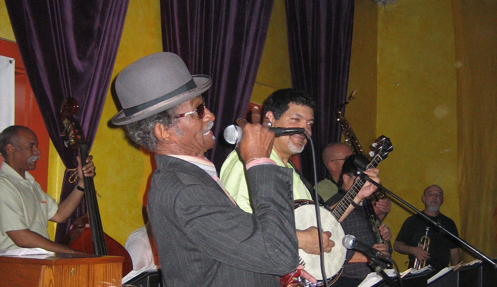 New Orleans: "Uncle" Lionel Batiste (in derby hat) and "Papa" Don Vappie (with banjo), playing at Cafe Brasil on Frenchmen Street.